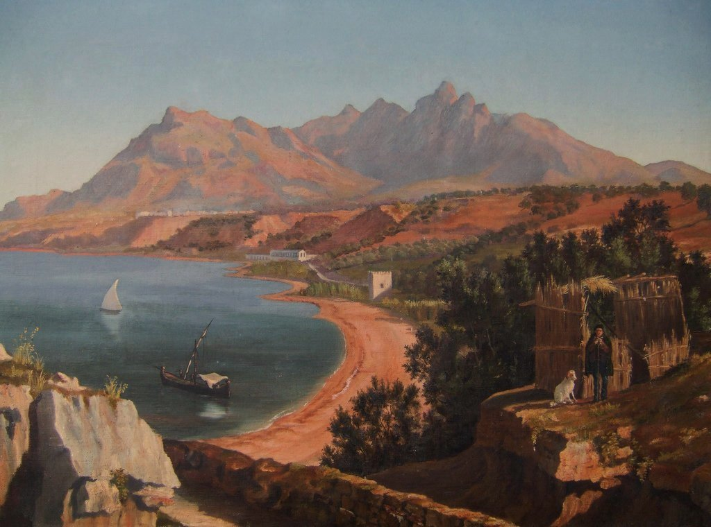 Litorale di Casteldaccia